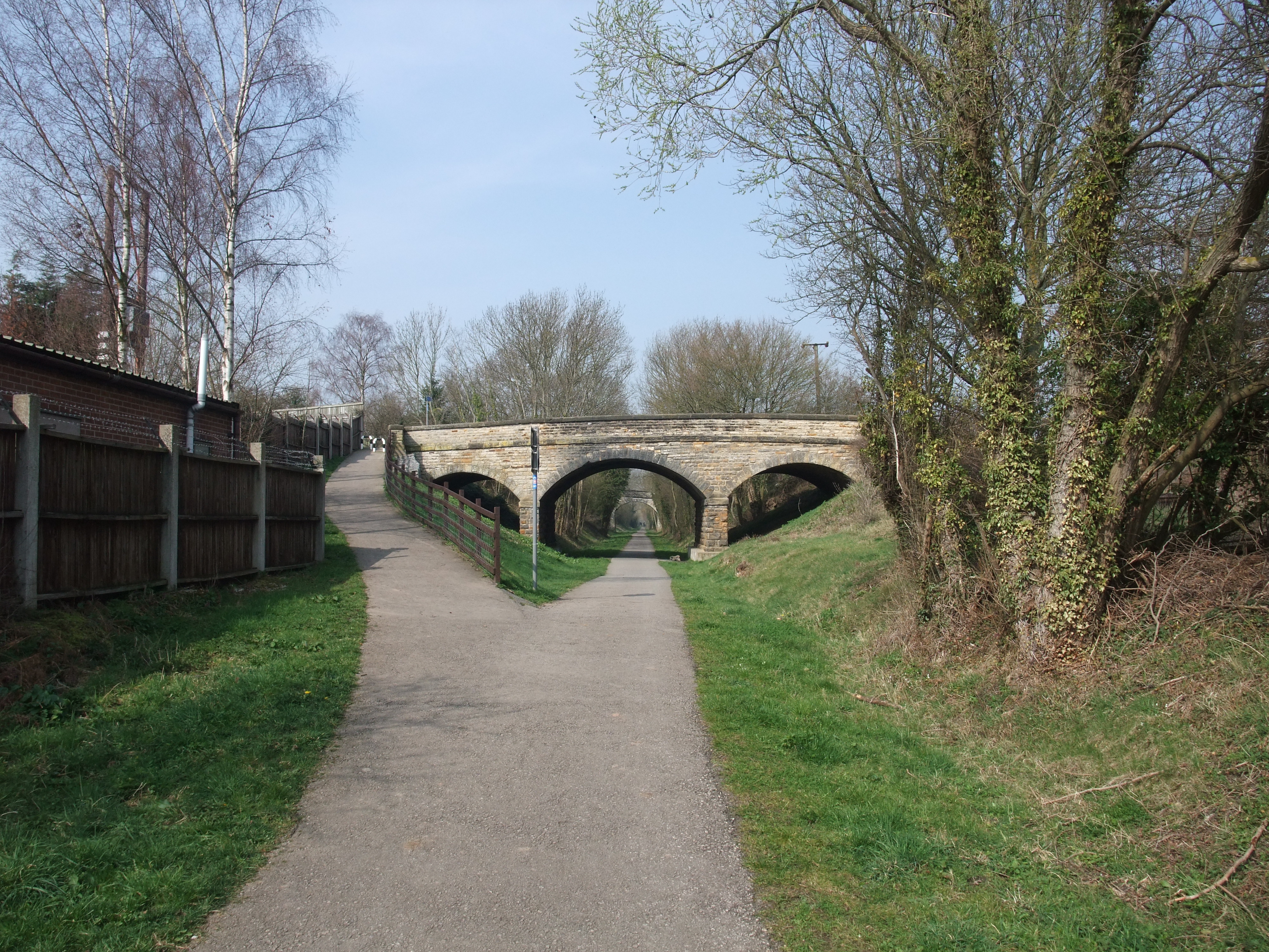 Cycle Route 6 approaching Station Road Bridge